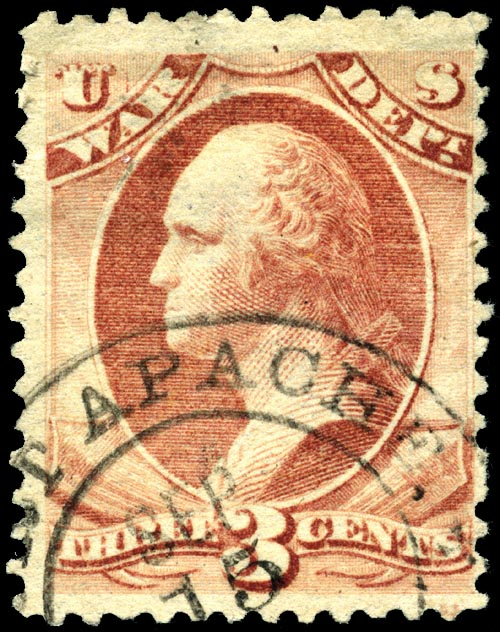 United States 3c official war department stamp of 1873, used at Fort Apache